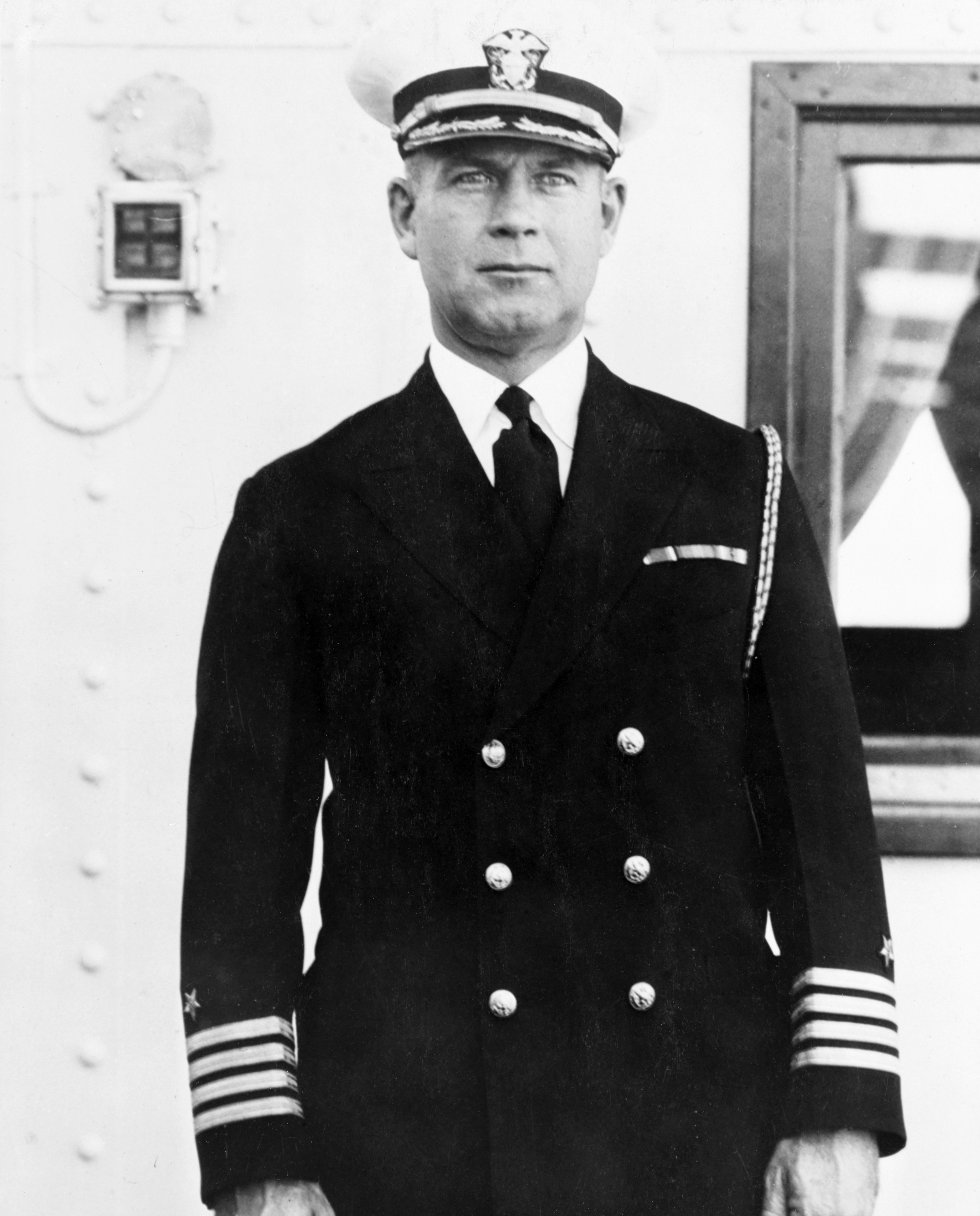 Captain Isaac C. Kidd, USN Photographed on board USS Argonne (AS-10), circa 1931. He was then serving as Chief of Staff to the Commander, Base Force, U.S. Fleet, Rear Admiral Henry H. Hough, Medal of Honor for actions during the Pearl Harbor attack, USN. Photo #: NH 50176